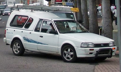 Ford Bantam (2) Leisure 1600i, a Ford Laser/Mazda Familia-based pickup truck built in and for South Africa by Samcor. The top is factory equipment.